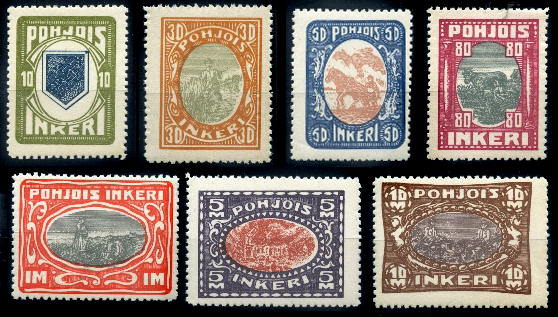 Stamps of Northern Ingria, 1920.